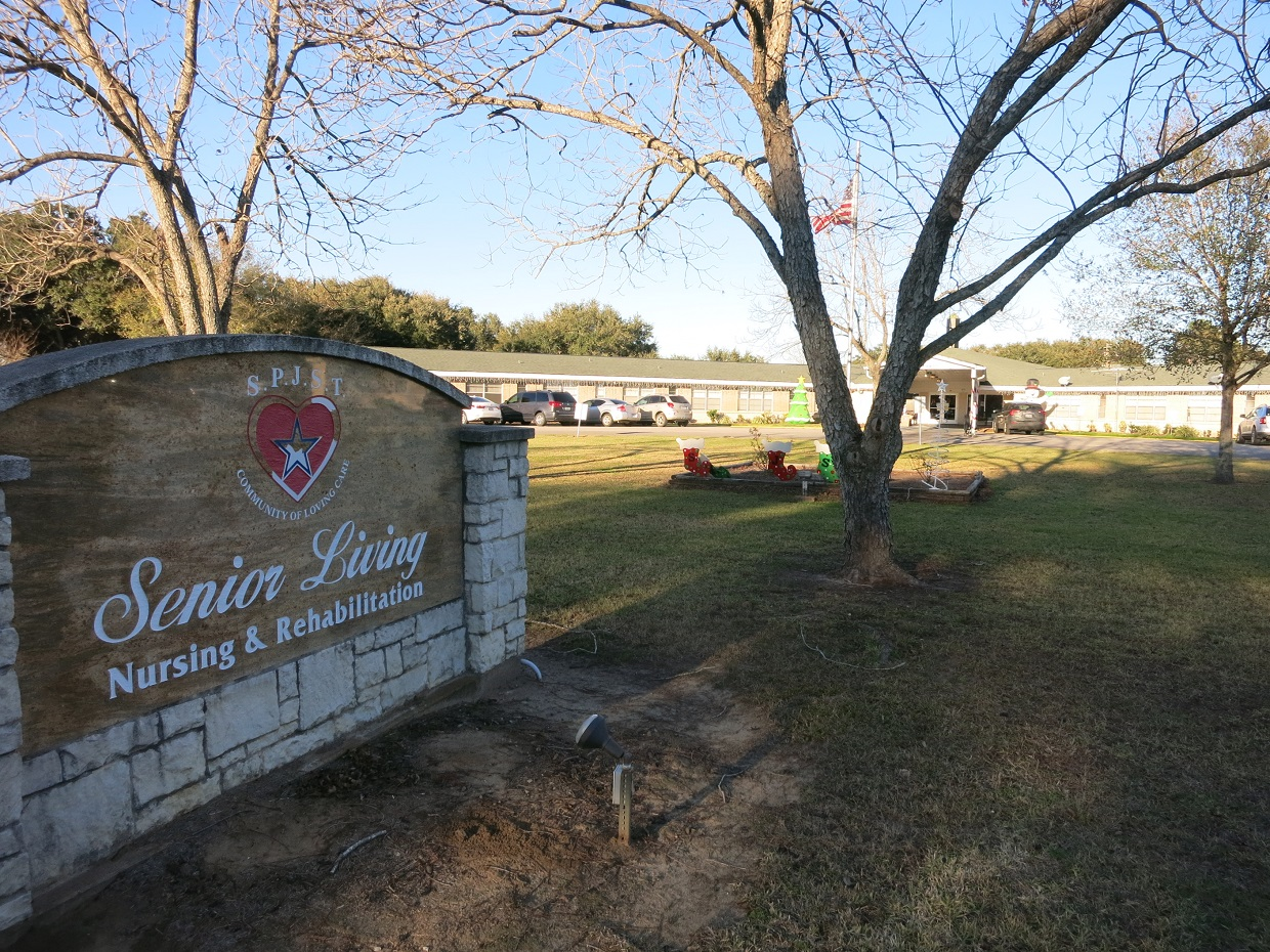 Photo shows SPJST Senior Living at 8611 Main St, Needville, TX 77461. View is toward the northeast.